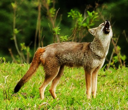 Hoary fox, Fazenda Hotel Bacury (Anhembi - SP, Brazil)